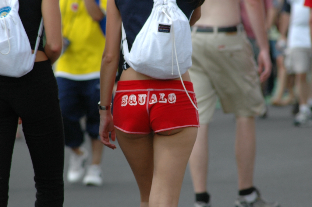 a sure way to get attention at the race. and on flickr, I predict this will be one of my most viewed photos. I took this at about 500mm (35mm equiv), so it wasn't like I was right behind her.